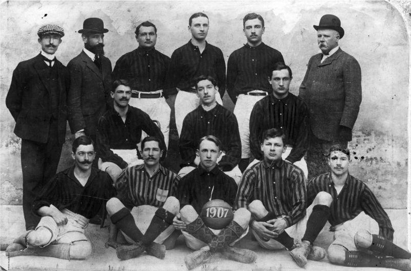 An A.C. Milan 1907 football line-up.